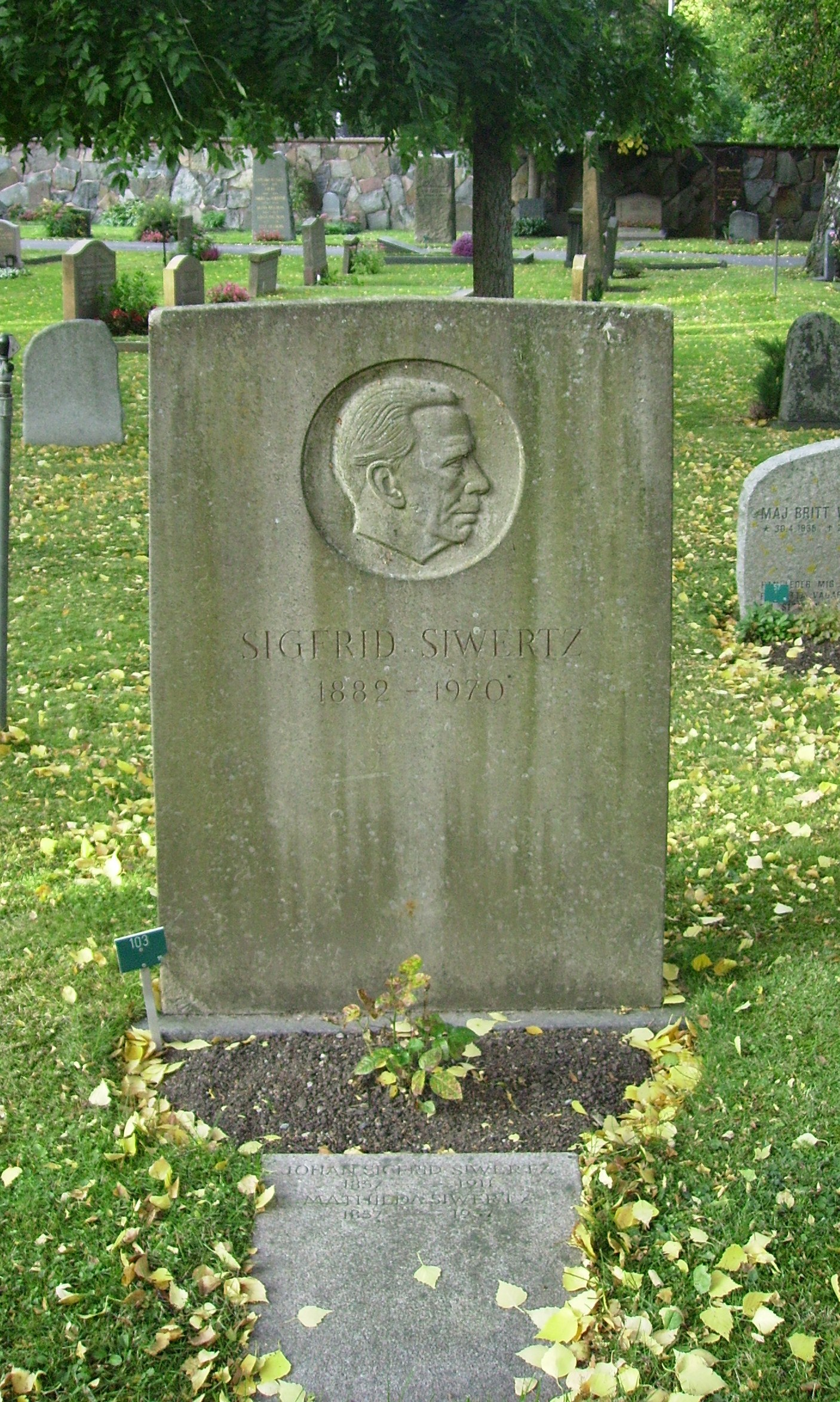 Picture of Sigfrid Siwertz grave at Solna kyrkogård